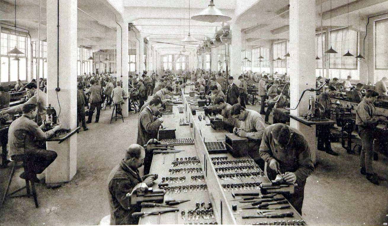 Lips Slotenfabriek Dordrecht, 1920